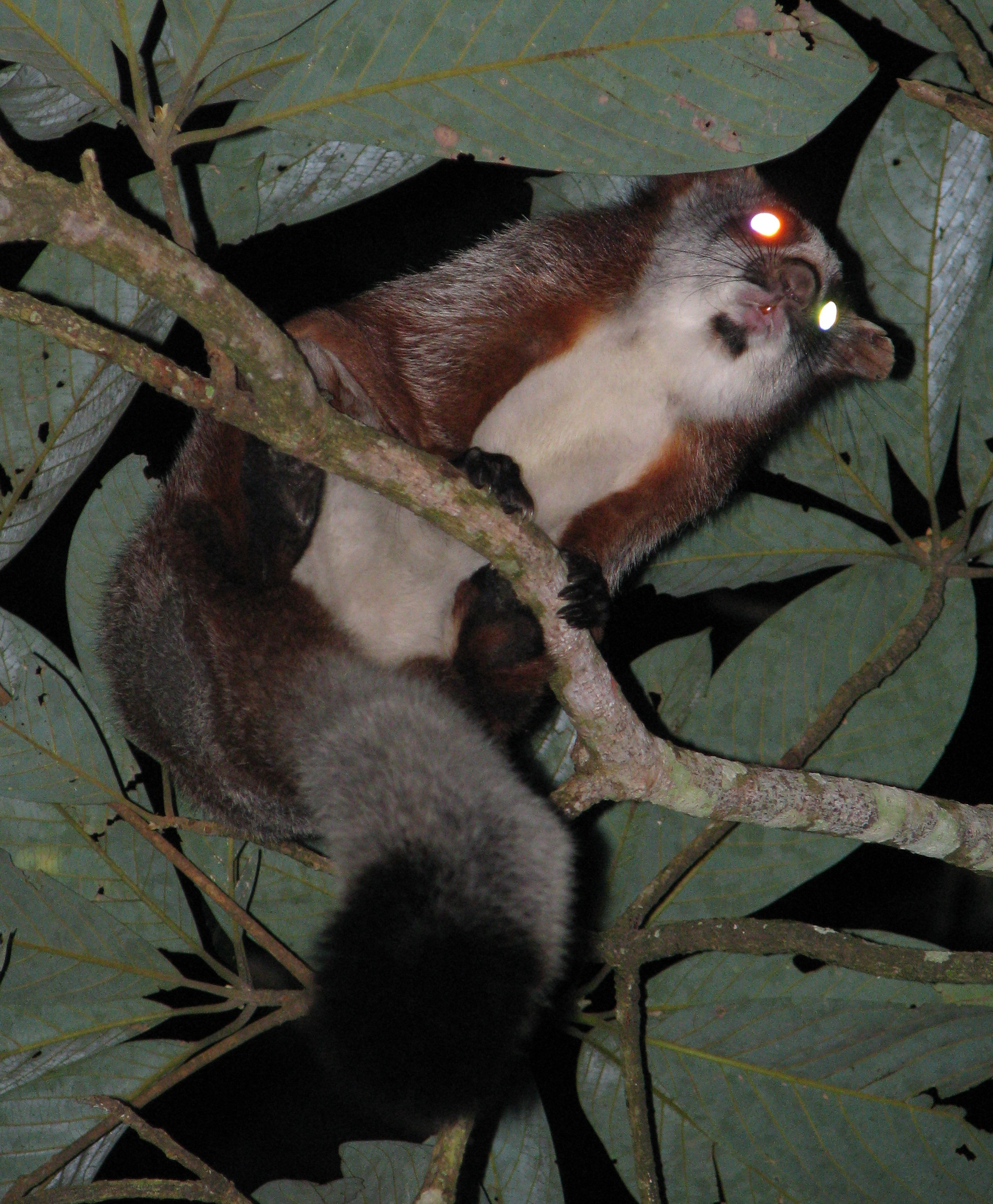 Photography by Nandini Velho (nandini.velho AT ) The Red Giant Flying Squirrel from Namdapha National Park.